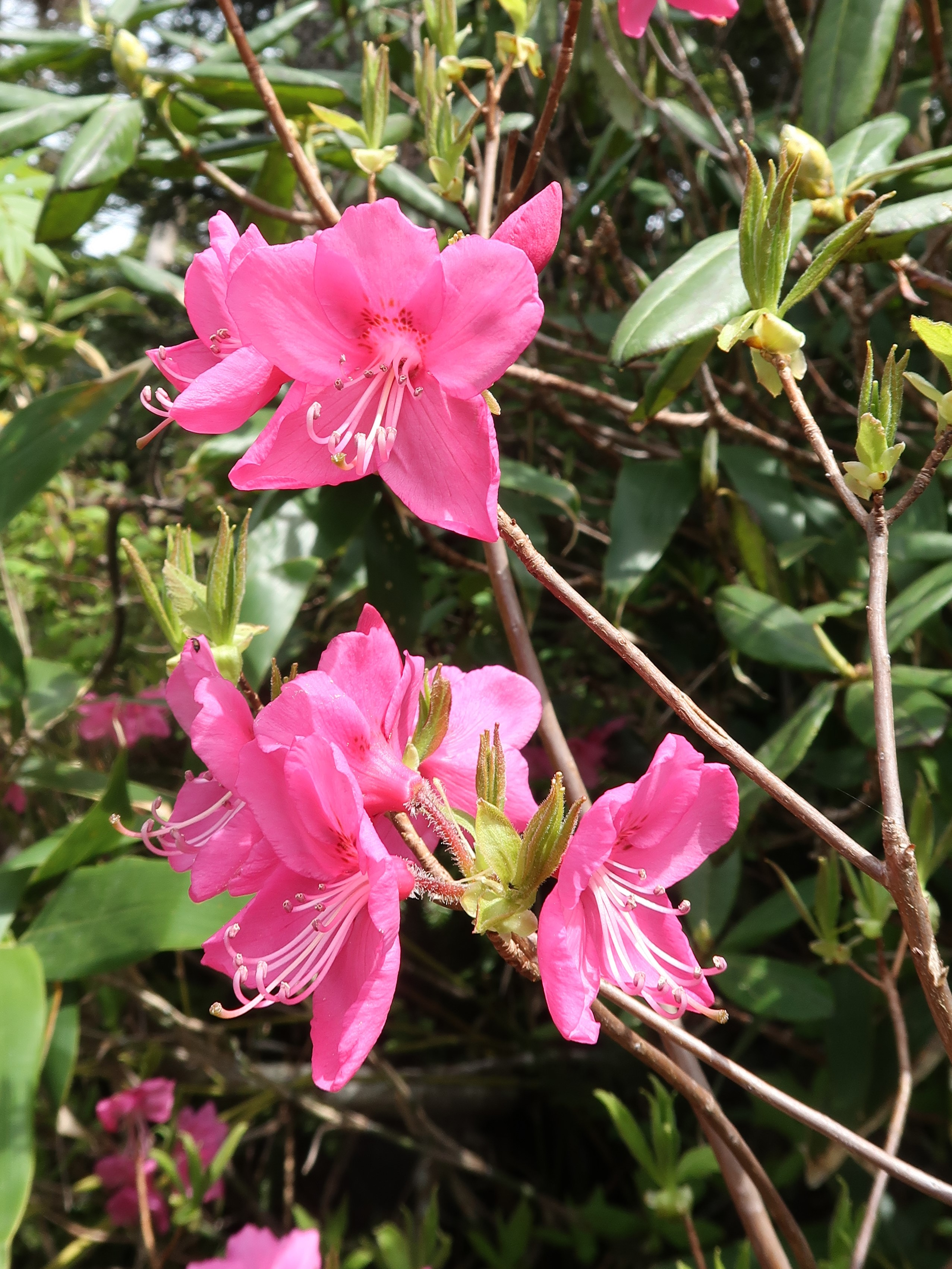 Rhododendron albrechtii, Mount Hachimantai, Iwate pref., Japan